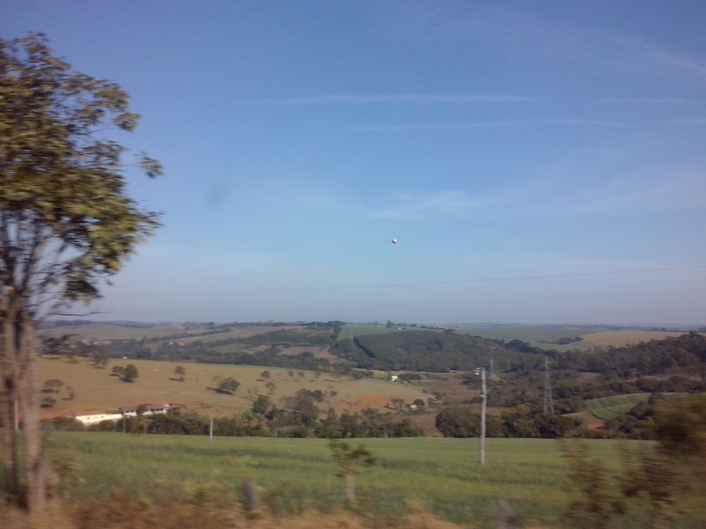 Countryside in Três Corações, Minas Gerais, Brazil.